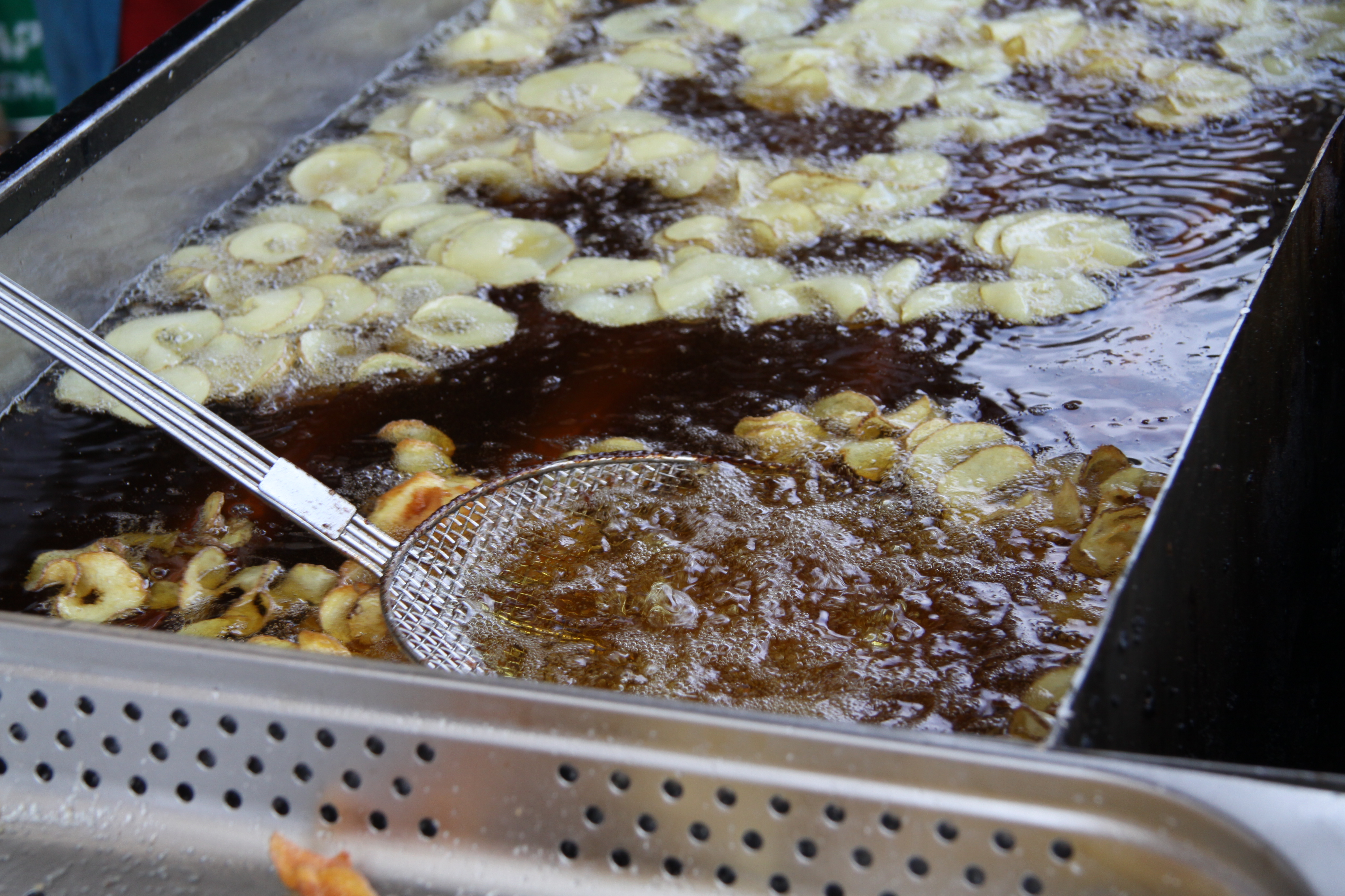 Process of production of homemade chips, Czech Republic. Cutted slices of potatoes are immersed to hot oil. They are fried there for several minutes.